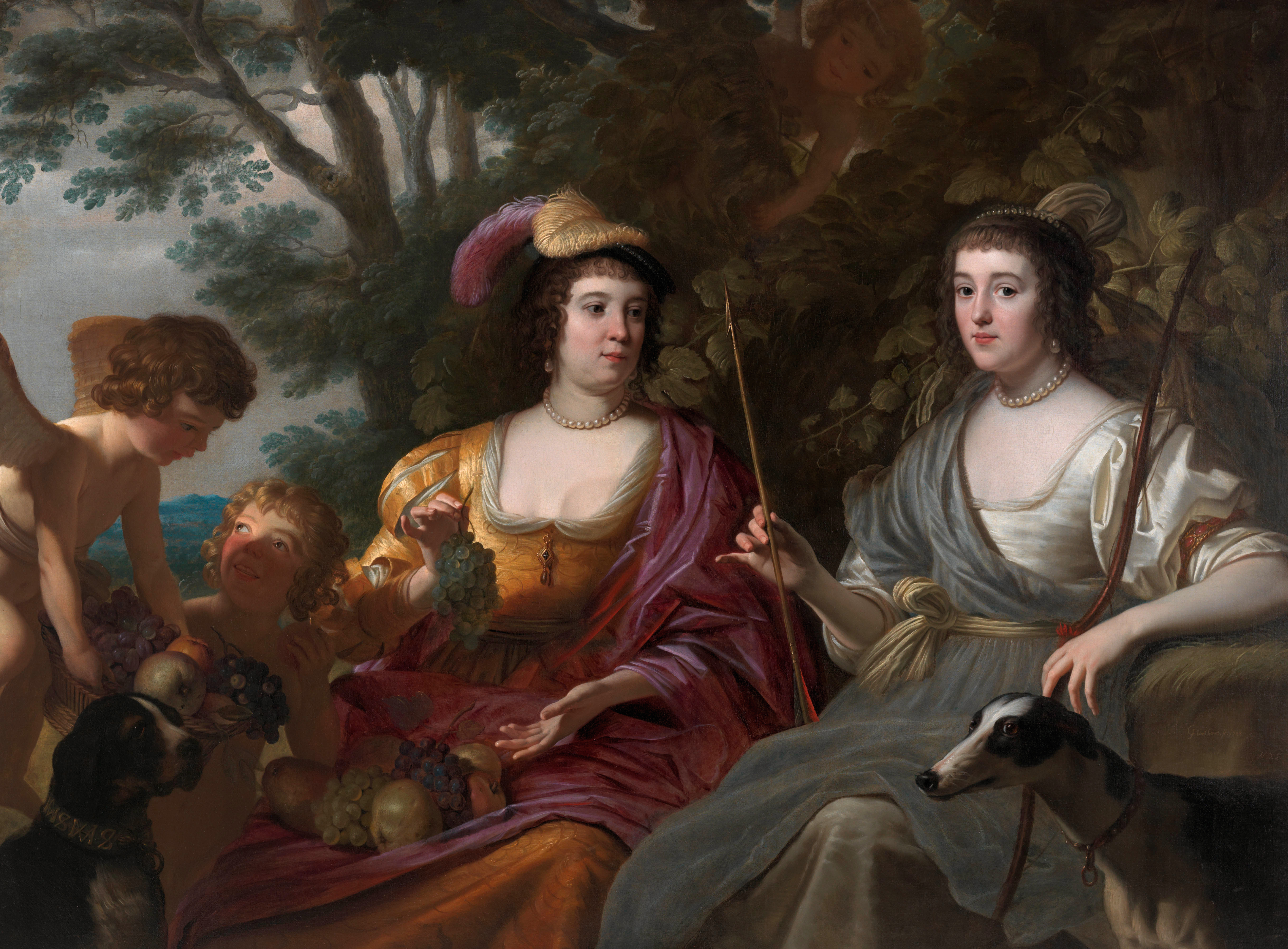 Amalia van Solms and Charlotte de La Trémoïlle as Diana and Ceres oil on canvas 123,5 x 166,7 cm signed b.r.: GHonthorst. fe. 1633